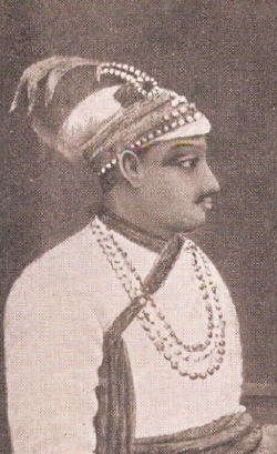 Siraj ud-Daula